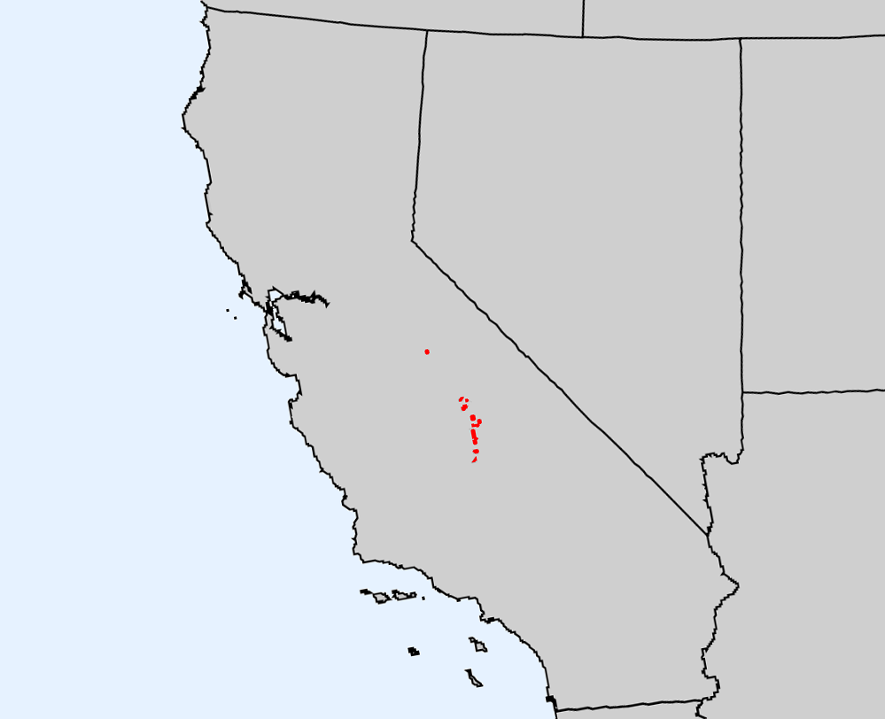 Range distribution map of Giant Sequoia (Sequoiadendron giganteum), which are endemic to the western Sierra Nevada, California